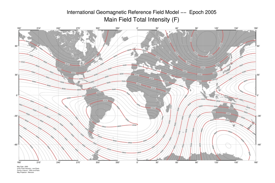 IGRF Main Field Total Intensity 2005